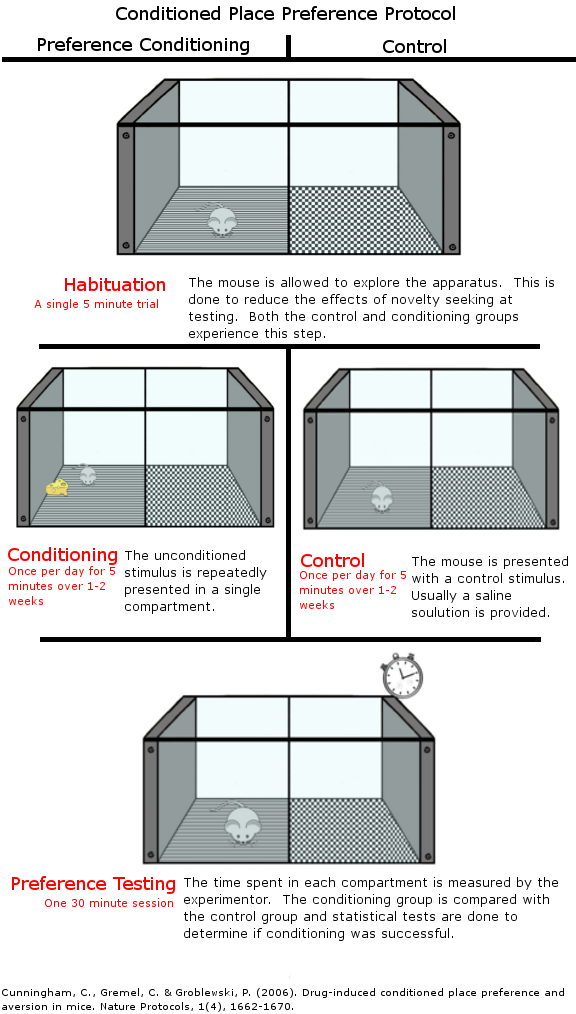 The conditioned place preference protocol. Based on Christopher Cunningham, Christina Gremel, Peter Groblewski (2006). "Drug-induced conditioned place preference and aversion in mice". Nature Protocols 1 (4): 1662–1670.